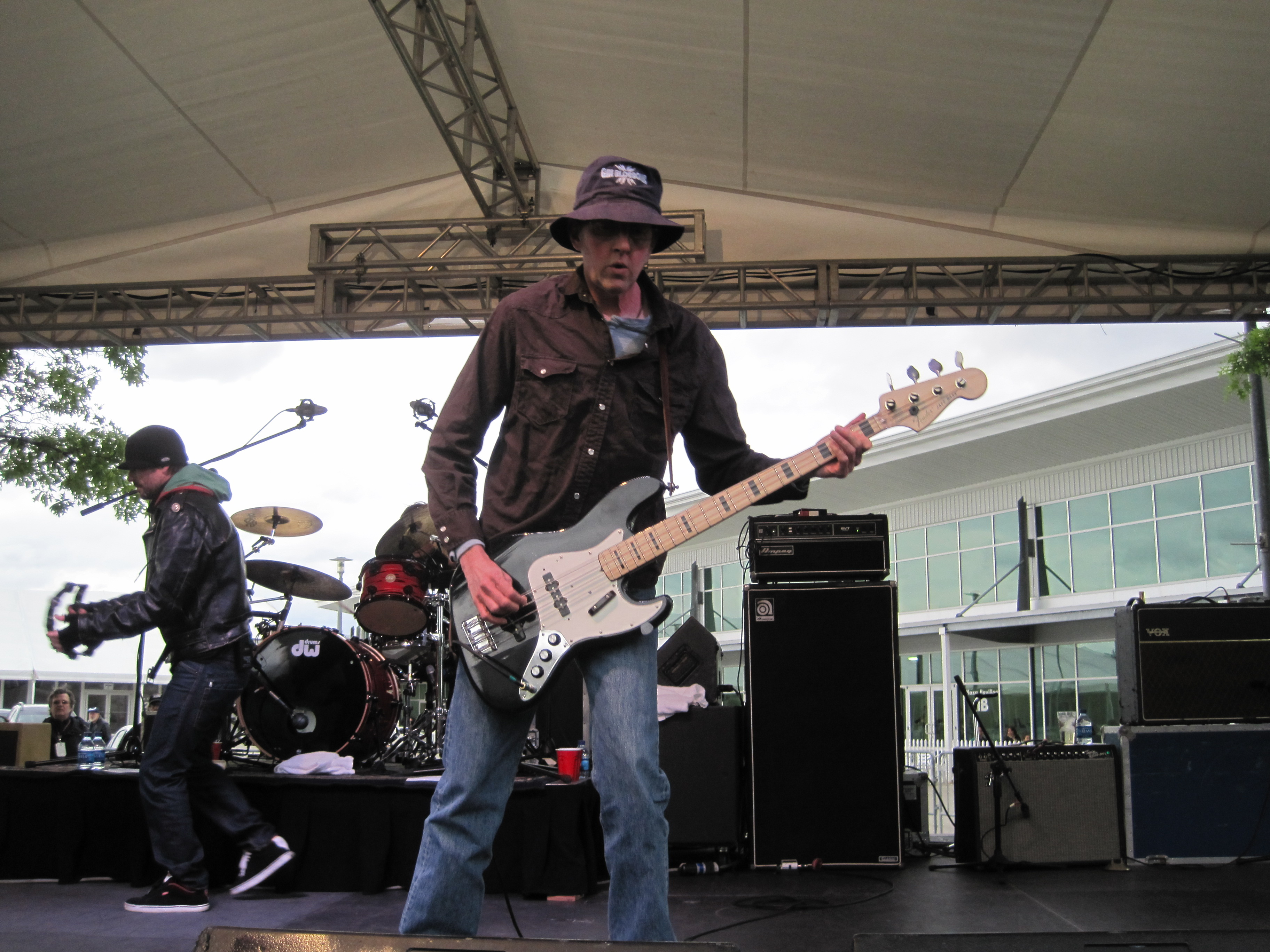 Bill Leen, bassist for the Gin Blossoms, performing at the Indianapolis Motor Speedway on Saturday, May 8, 2010.